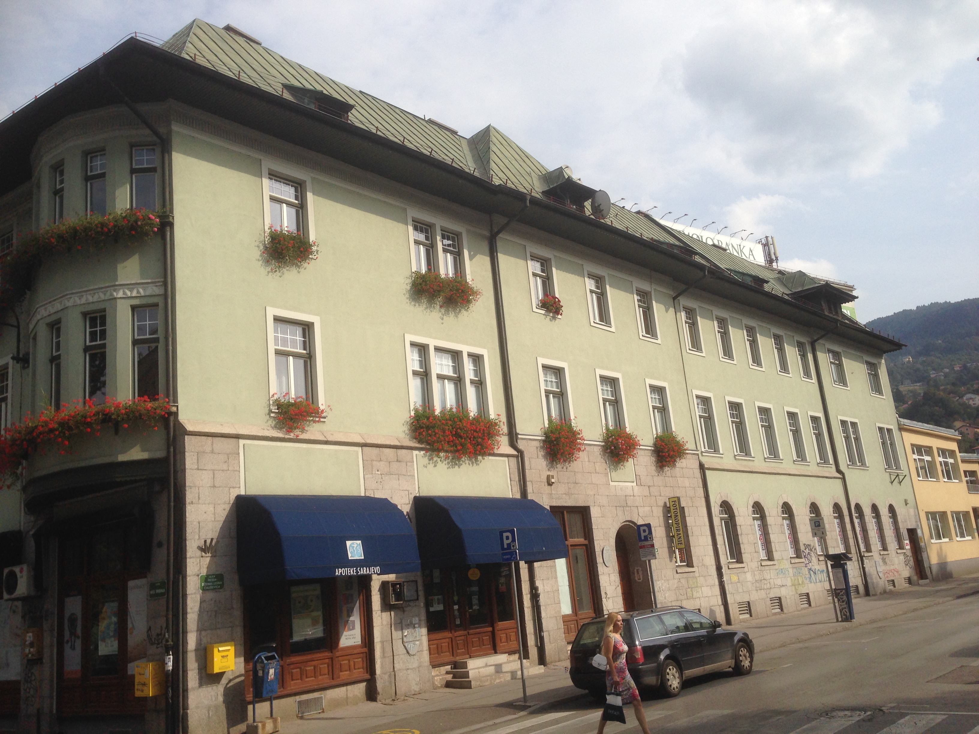 State endowment